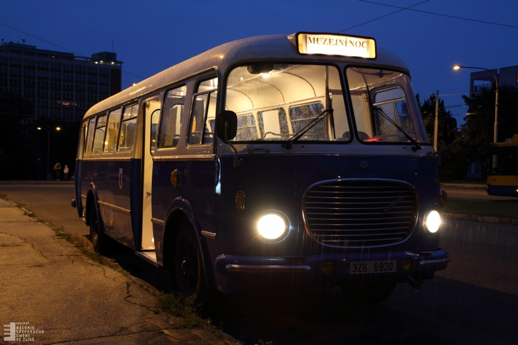 Historical 1959 bus at the Long Night of Galleries and Museums in Zlín